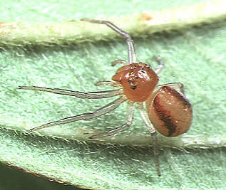 female Alcimochthes limbatus from Okinawa.